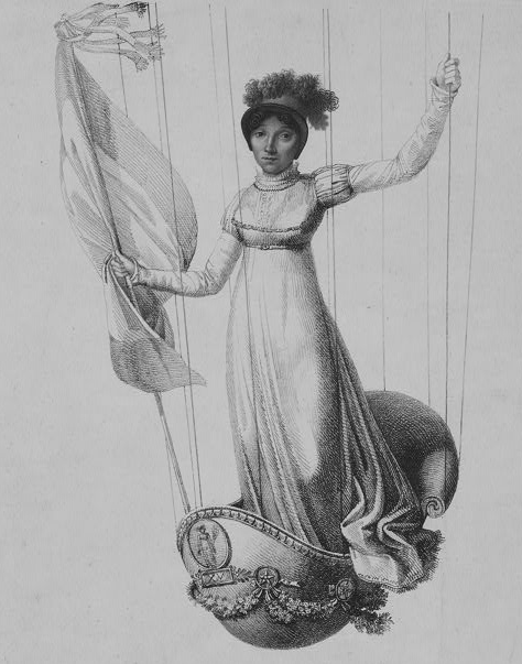 Sophie Blanchard, French Balloonist. Ascent of August 15th 1811 at Milan.